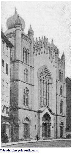 The Main Synagogue of Frankfort. Destroyed by the nazis during the cristal night